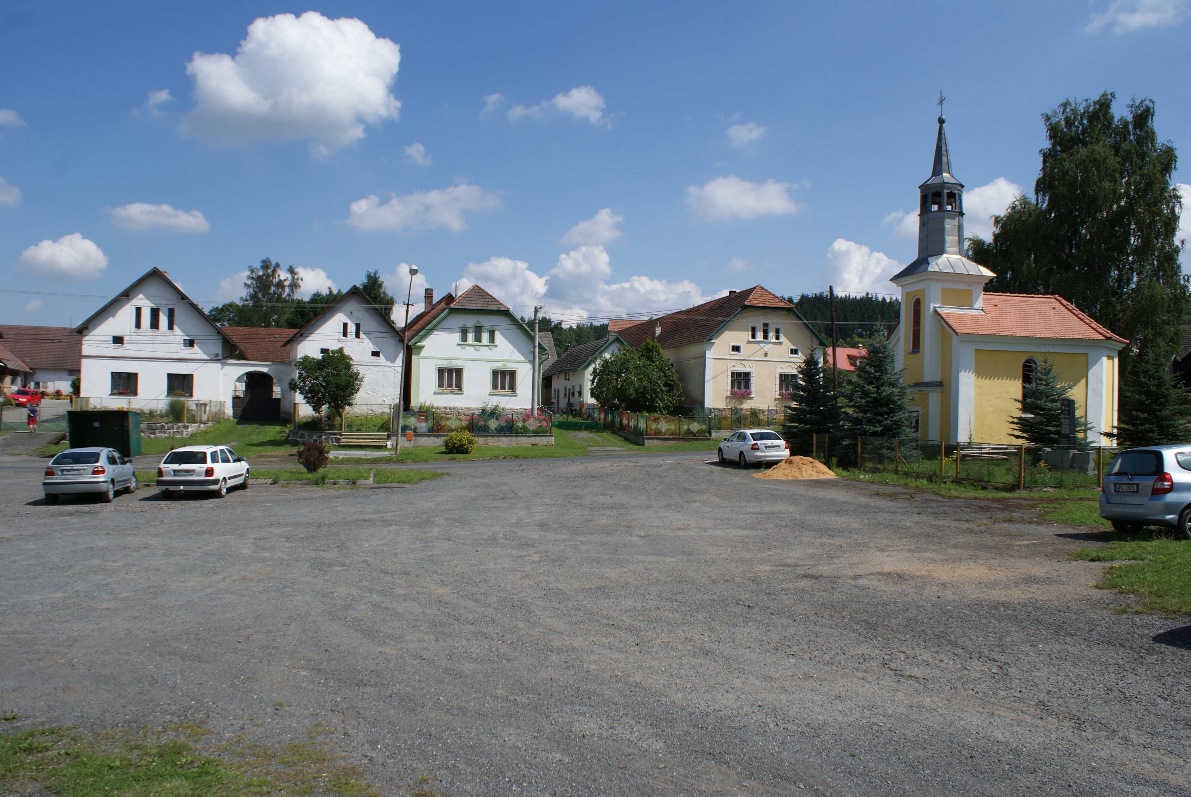 Radochovy, a village in Plzeň-South District, Czech Rep., the village common.